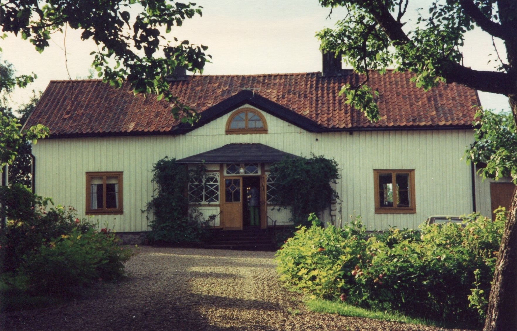 Historic Farneby EstatePlace: Vrena, Nyköping, Sweden